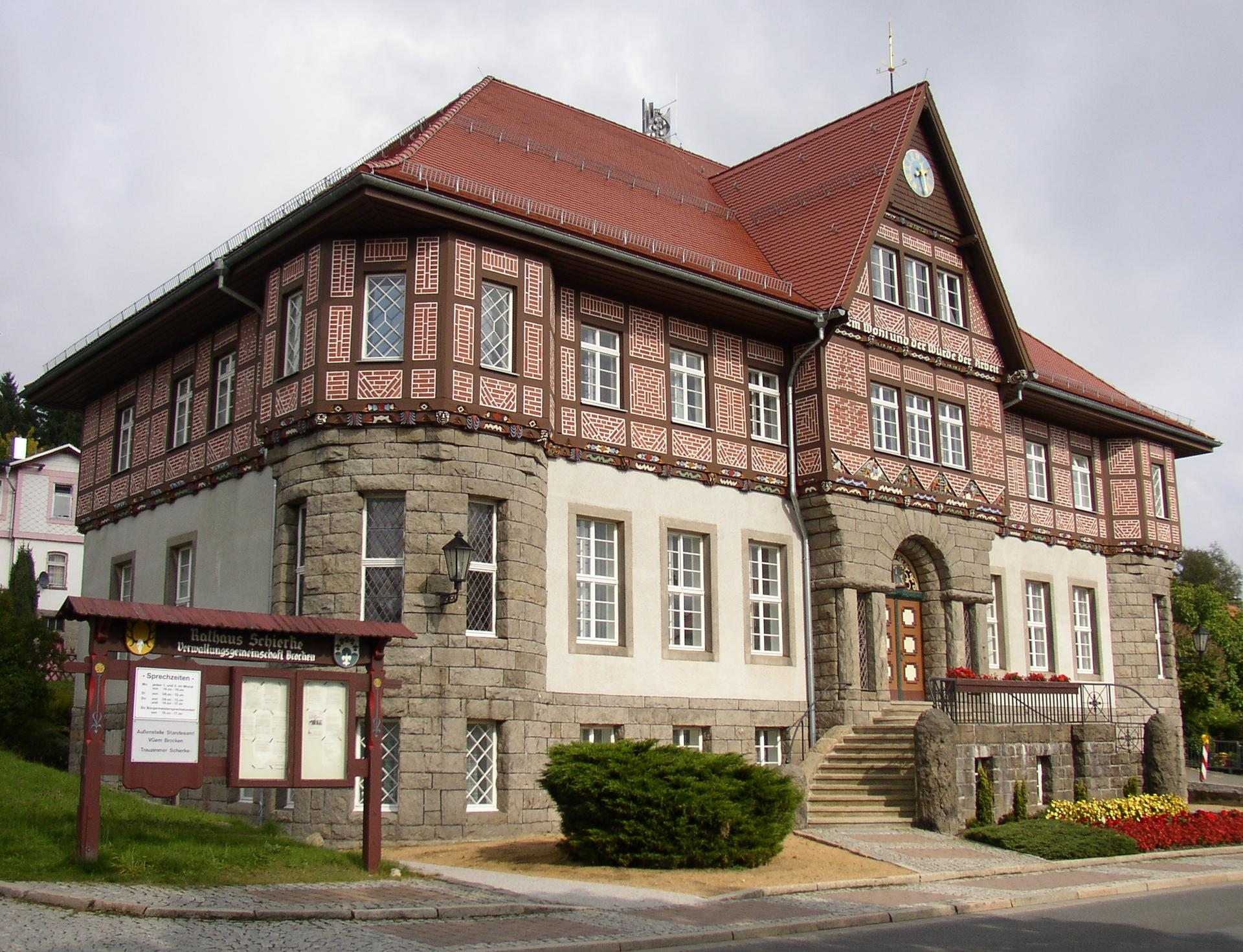 Town hall in Schierke in Saxony-Anhalt, Germany